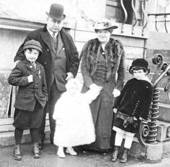 Democratic mayoral candidate, Robert Sweitzer and family standing in front of their home